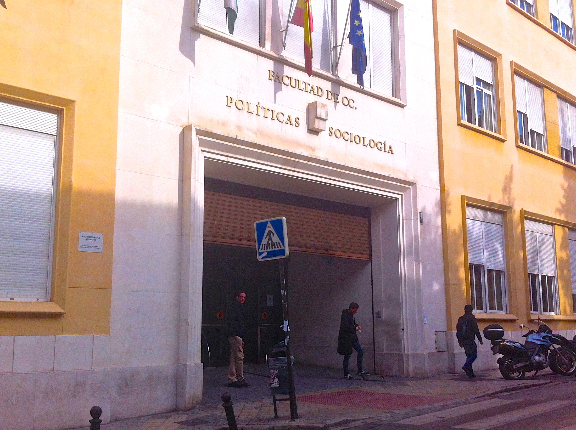 Entrada principal de la Facultad de Ciencias Políticas y Sociología de Granada